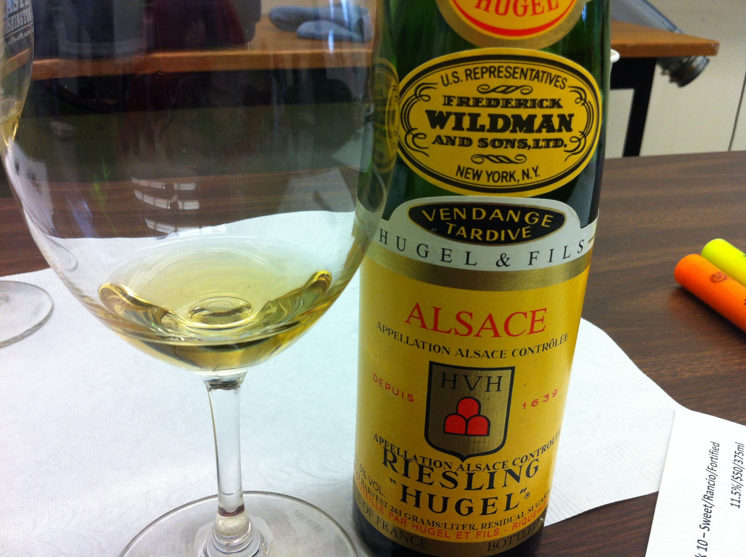 French Alsatian Riesling from Hugel made in the Vendange Tardive style